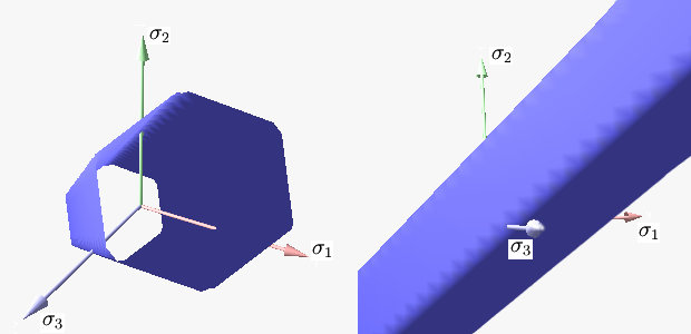 I have made this with qglviewer and marching cubes. It shows tresca-guest yield surface in 3D.